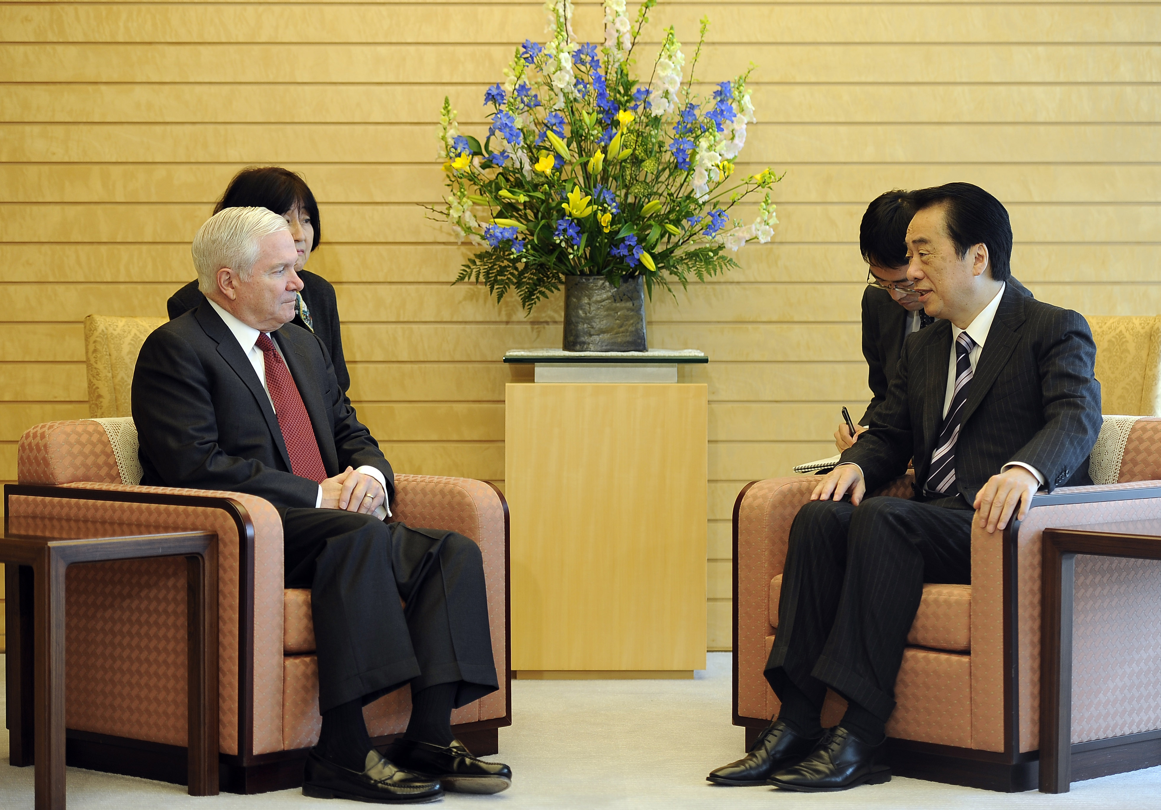 Secretary of Defense Robert M. Gates talks with Japanese Prime Minister Kan Naoto at the Kantei building in Tokyo, Japan, on Jan. 13, 2011.